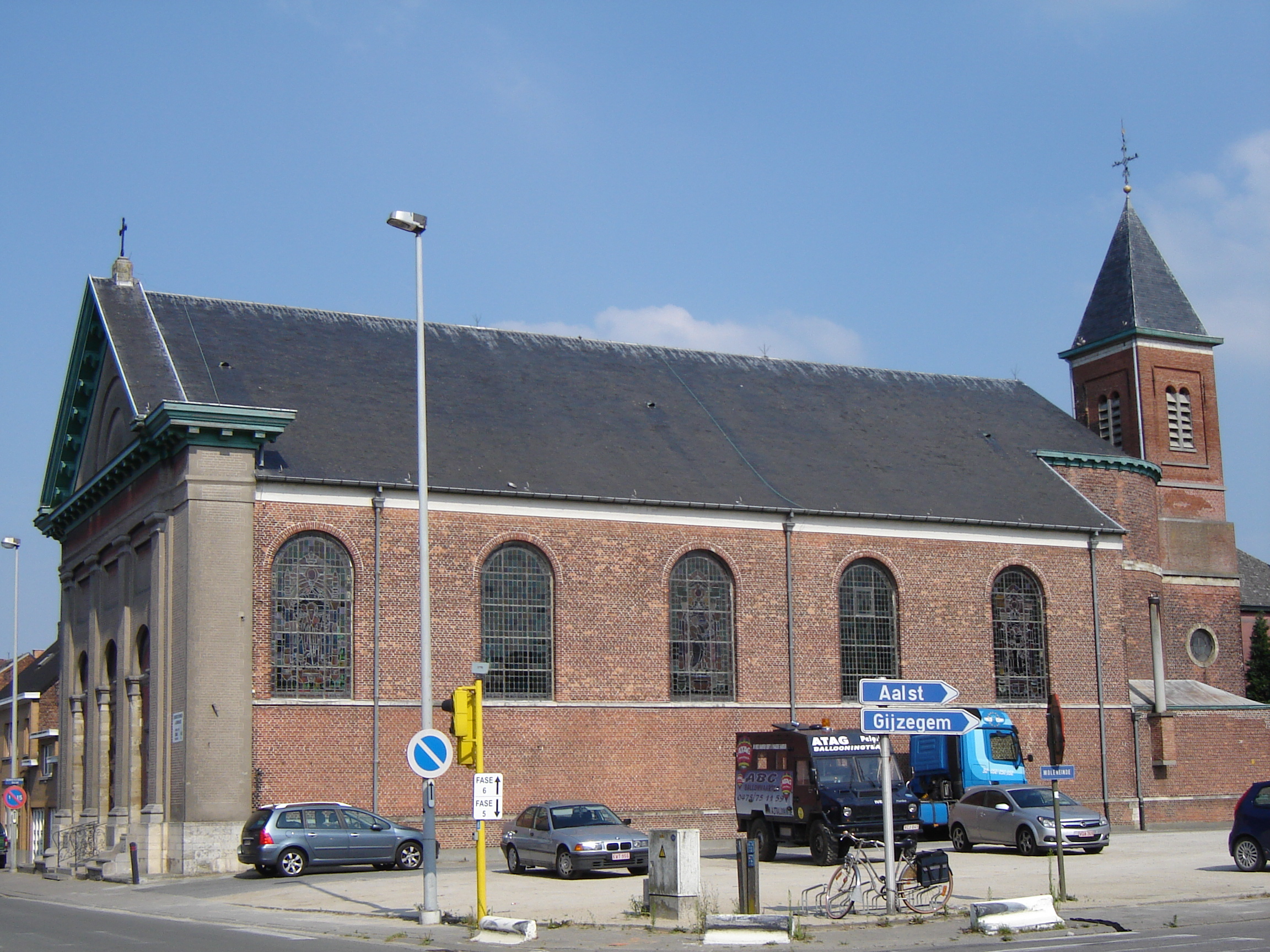 Church of Our Lady of the Seven Sorrows in Schoonaarde. Schoonaarde, Dendermonde, East Flanders, Belgium